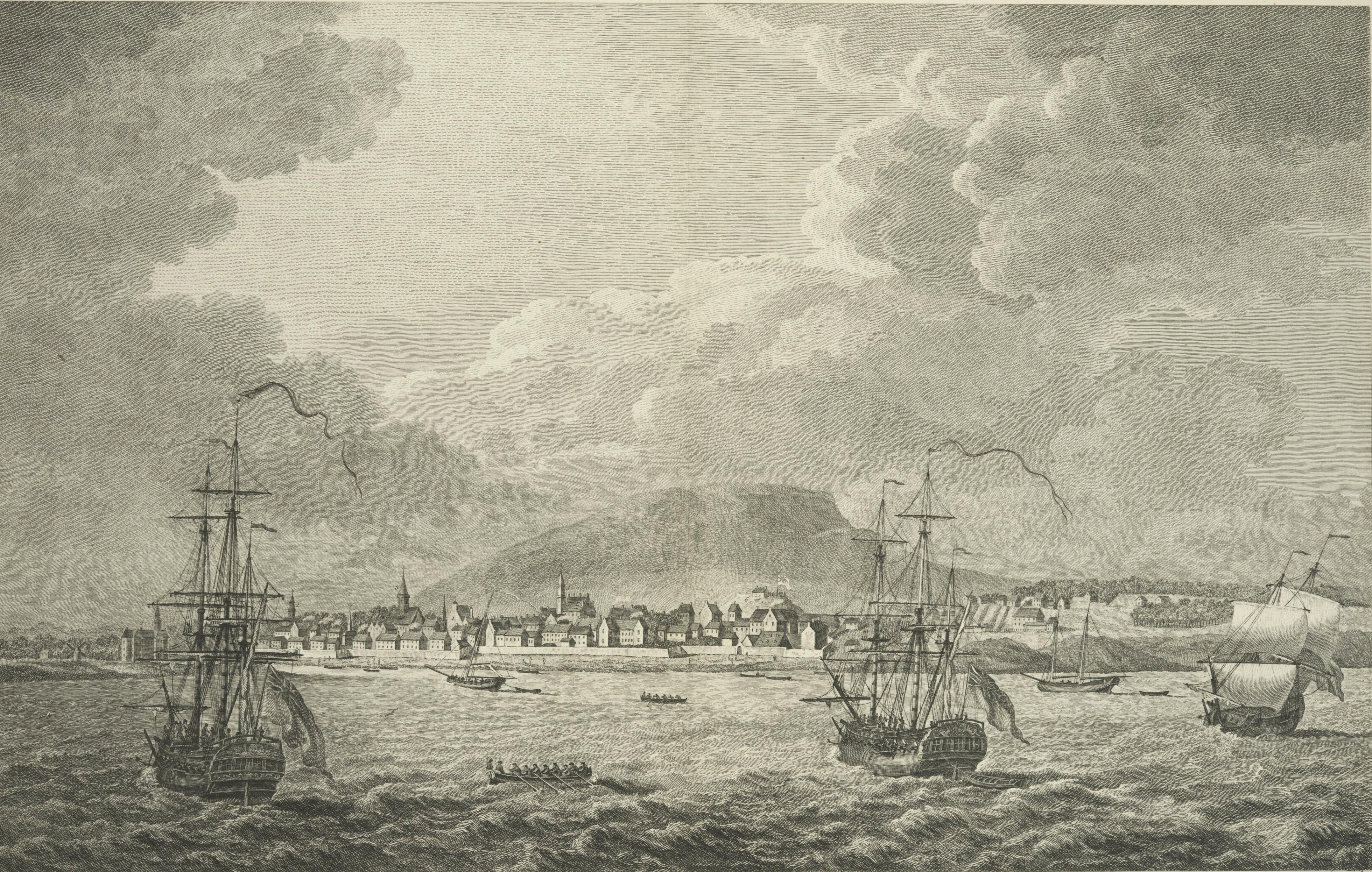 Stokes Before 1760-B-73 From Scenographia Americana, 1768. Print also published in London by Robert Sayer, Thomas Jefferys, Carington Bowles and Henry Parker. Print contains 6 references in lower margin. Deák 111